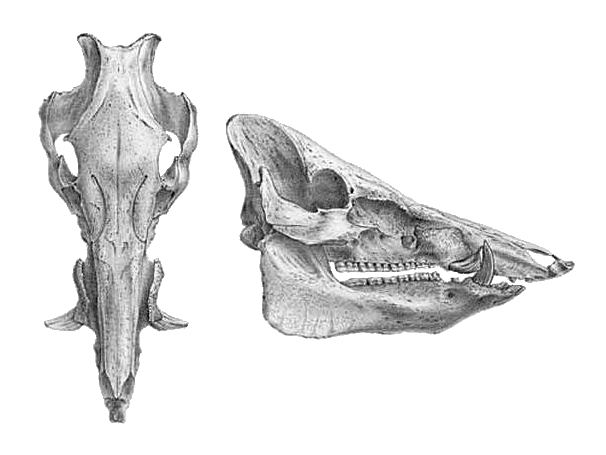 Sus celebensis skill